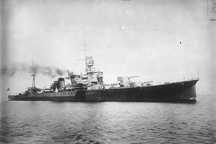 Horizontaly flipped picture of the Imperial Japanese Navy's heavy cruiser Furutaka off Nagasaki. [In the records of the United States Naval Historical Center, the photograph is incorrectly labeled "Kako (Japanese Heavy Cruiser, 1926). Photograph taken in 1926, showing the ship as first completed with short smokestacks." See [1].]